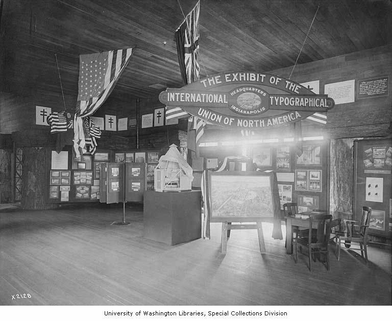 Caption on image: X2128. PH Coll 727.371 Subjects (LCTGM): International Typographical Union--Facilities--Washington (State)--Seattle; Alaska-Yukon-Pacific Exposition (1909 : Seattle, Wash.)--Facilities--Washington (State)--Seattle Subjects (LCSH): Forestry Building (Seattle, Wash.); Printing--Exhibitions